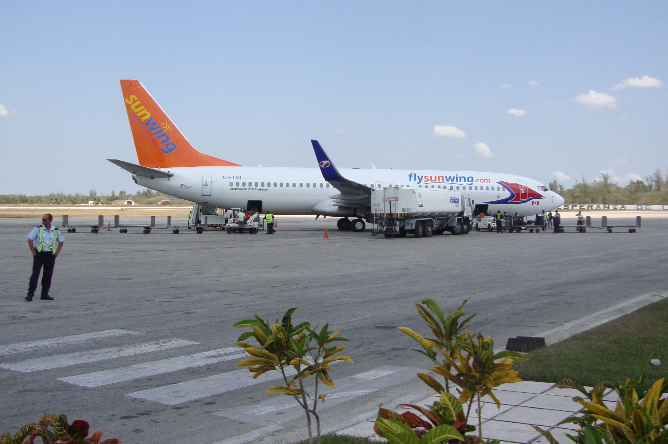 Sunwing Airlines Boeing 737-800 registered C-FTAH at Frank País Airport, Holguín, Cuba